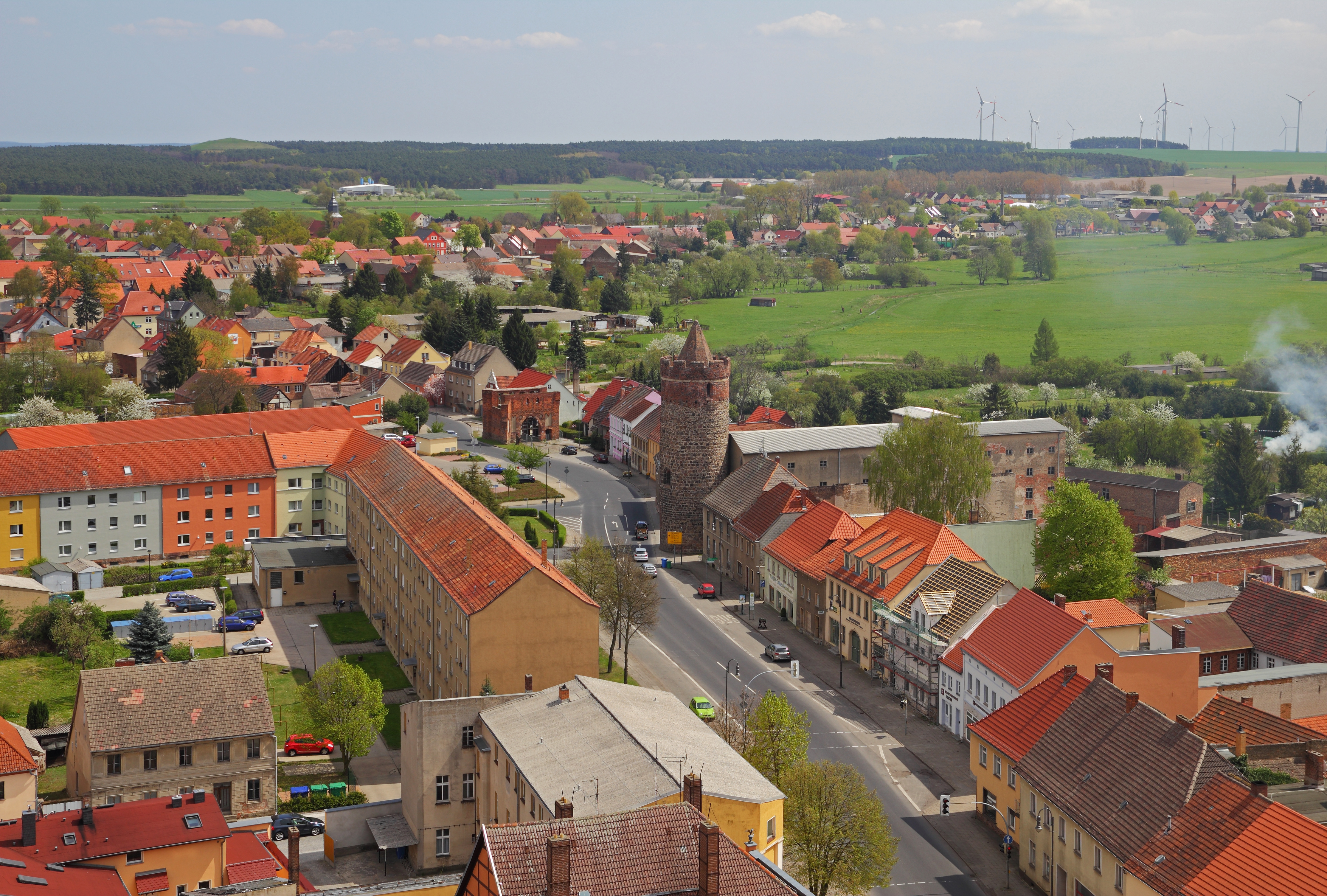 View from St. Nicholas Church in Jüterbog, Brandenburg, Germany